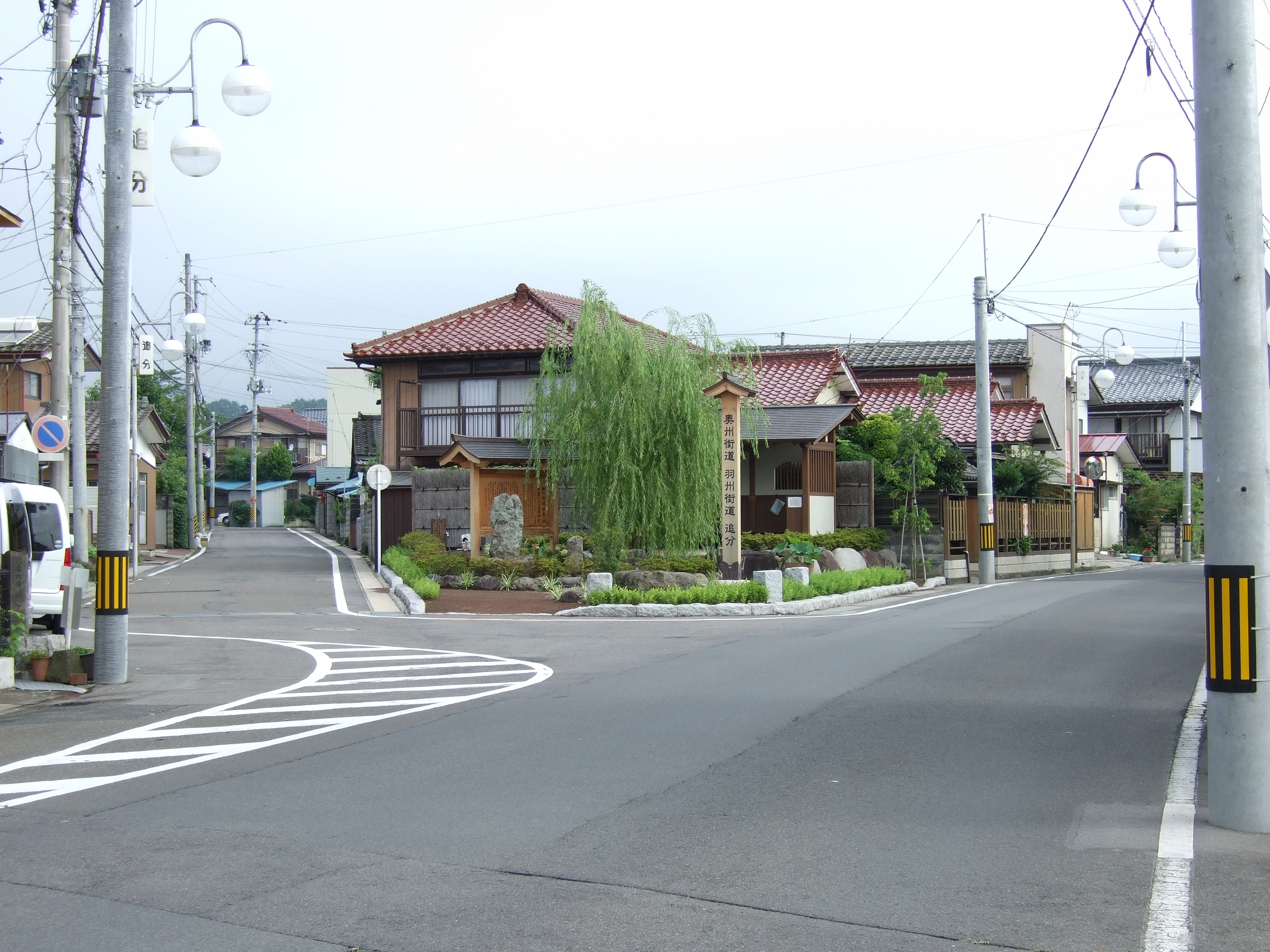 Koori Oiwake junction in Koori Town, Fukushima Prefecture, Japan, where the Ushu Kaido (left) leaves the Oshu Kaido